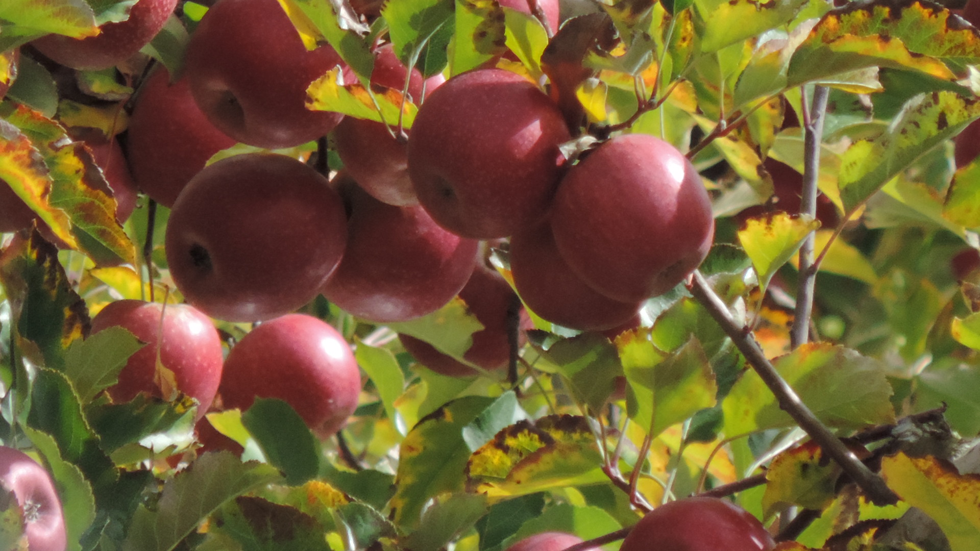 Pink lady apples, Thulimbah, Granite Belt, Queensland, 2015